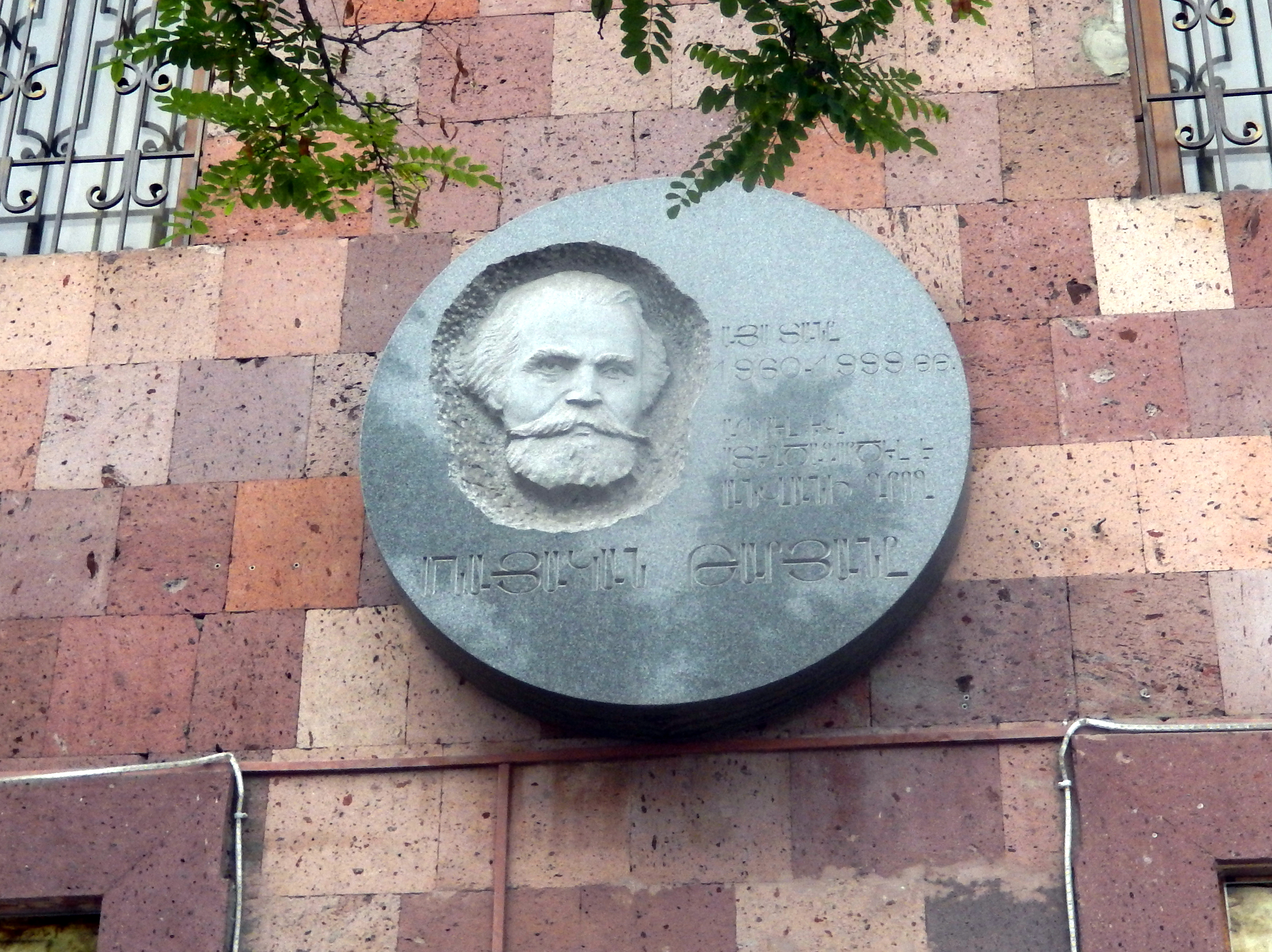 Plaque of Mnatsakan Taryan on Komitas Avenue, Yerevan